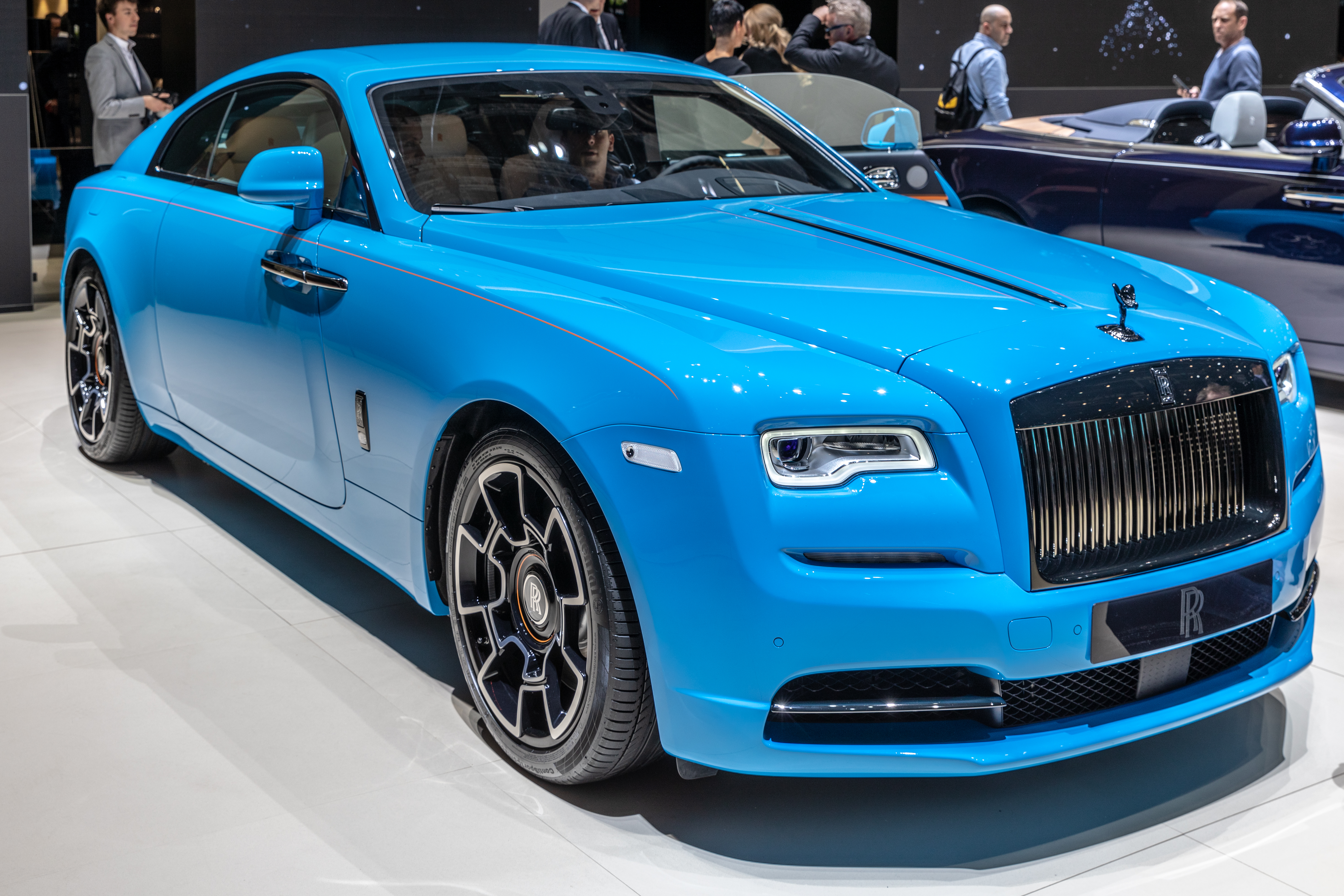 Rolls-Royce Wraith at Geneva International Motor Show 2019, Le Grand-Saconnex